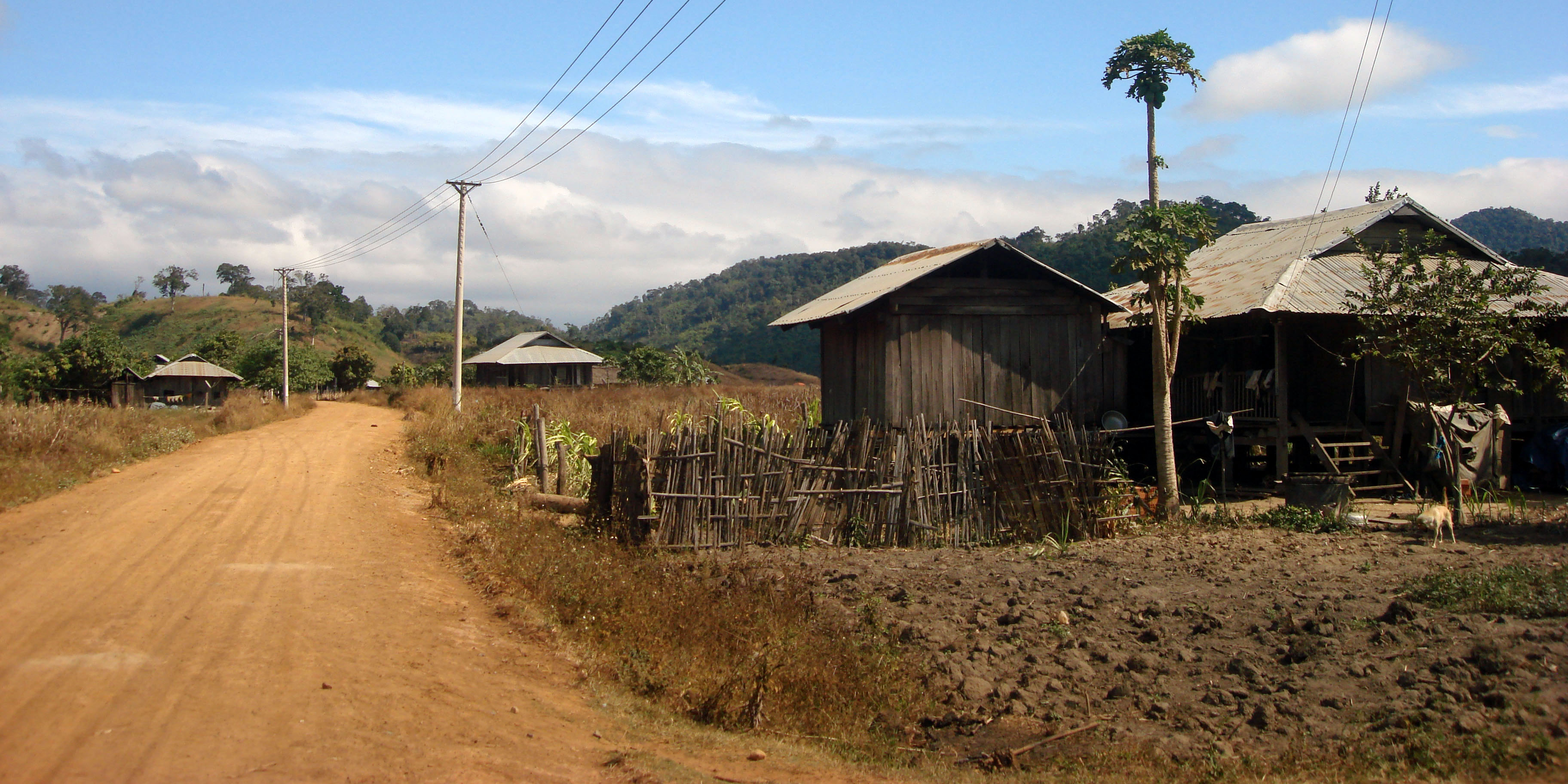 Village Krong